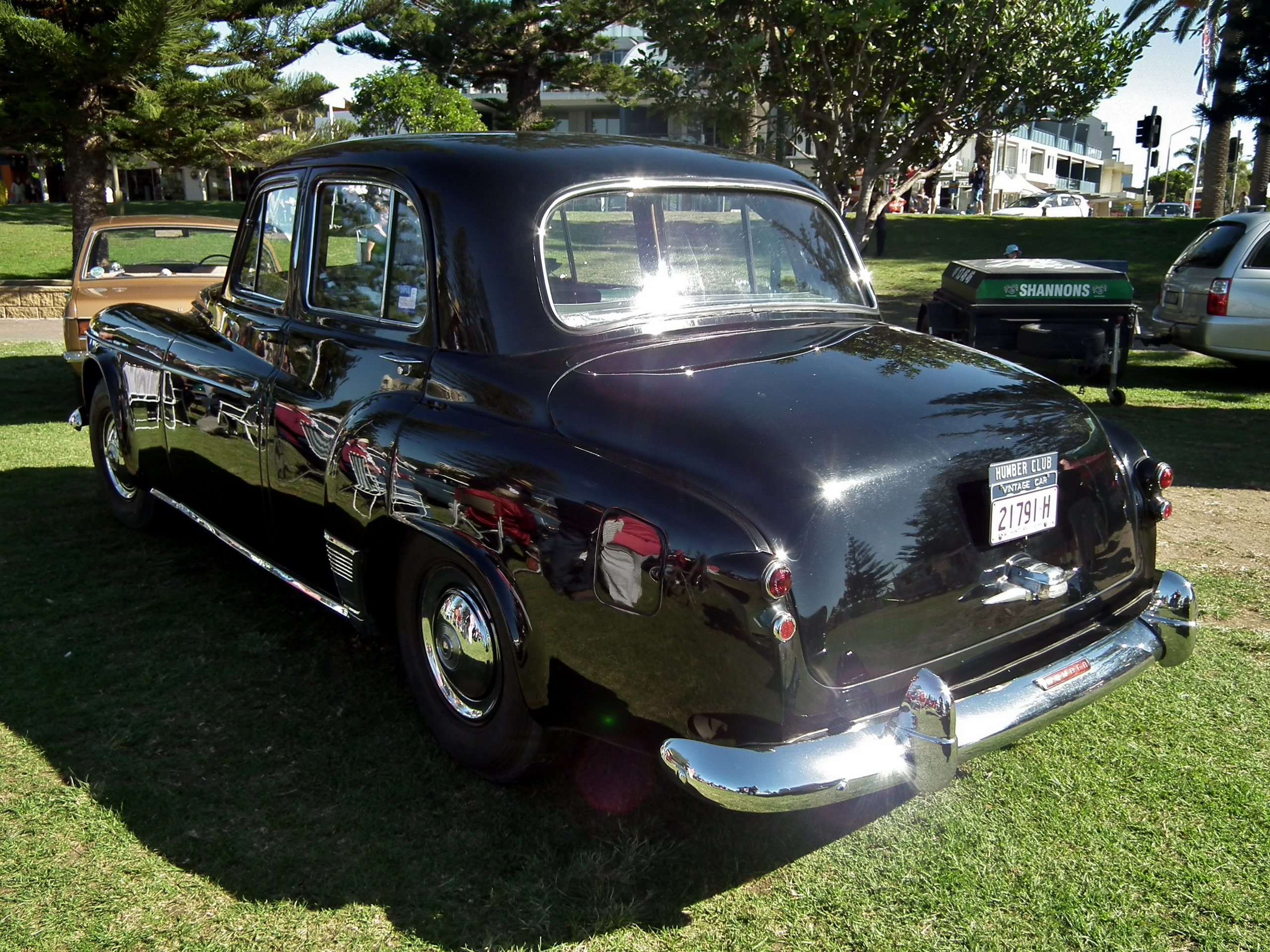 Humber Super Snipe Mk IV sedan rear 1955.Taken at the National Motoring Heritage Day display at Memorial Park, The Entrance, New South Wales.